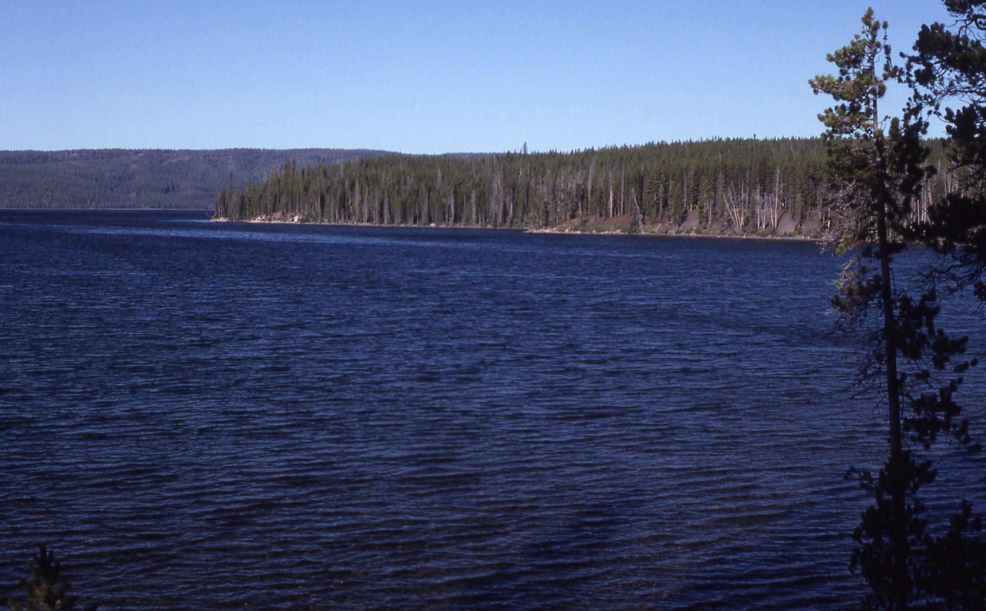 Shoshone Lake in Yellowstone National Park (1989)